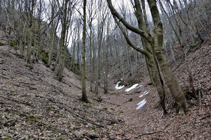 Draw below the Javorinky plain, Little Carpathians